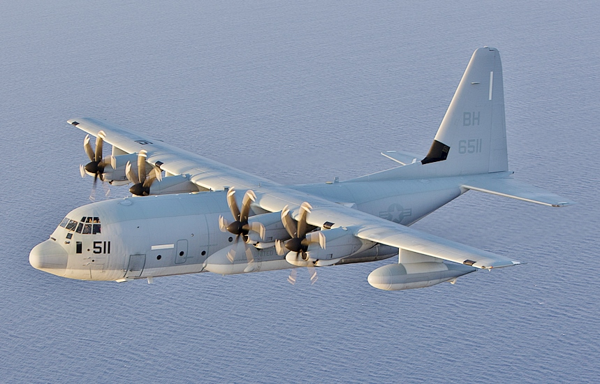 A KC-130J attached to Special-Purpose Marine Air-Ground Task Force Crisis Response from Marine Aerial Refueler Transport Squadron-352, flies over the Mediterranean Sea, June 15, 2014. KC-130Js from SP-MAGTF Crisis Response flew to the USS Bataan in order to conduct aerial refueling drills with the 22nd Marine Expeditionary units CH-53Es. Marines with SP-MAGTF .